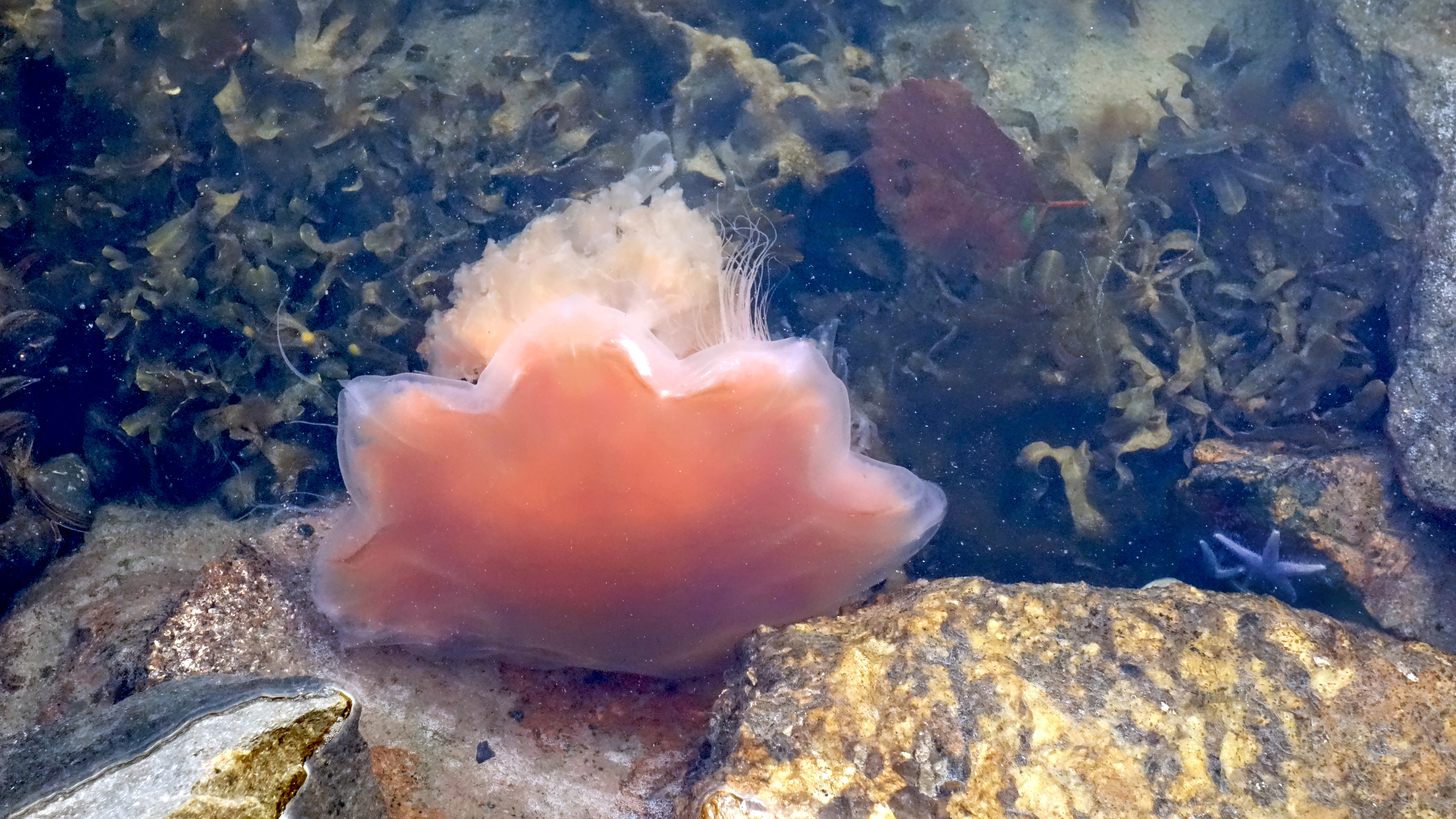 A lion's mane jellyfish (Cyanea capillata), two purple common starfish (Asterias rubens) and bladder wrack (Fucus vesiculosus) in Gullmarsfjorden at the beach in Holma, Lysekil Municipality, Sweden.